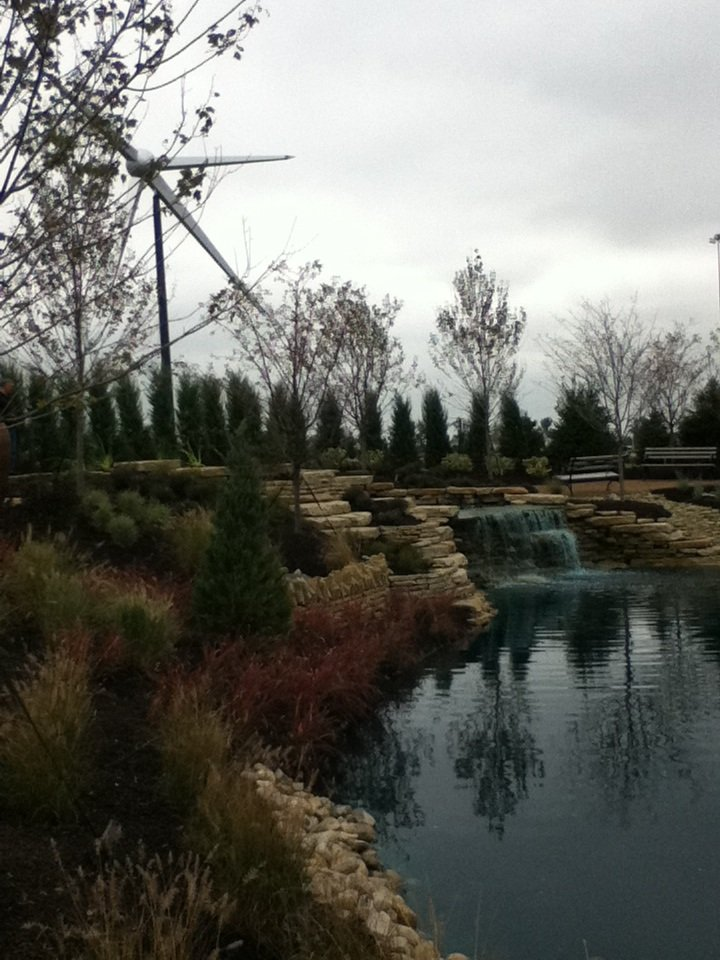 Founder's Park: Wide View